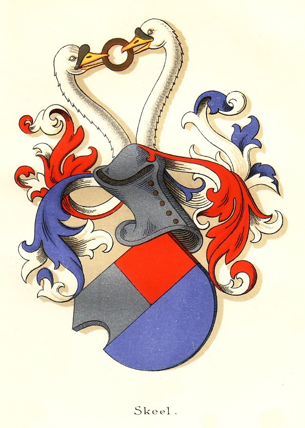 Coat of arms - Skeel